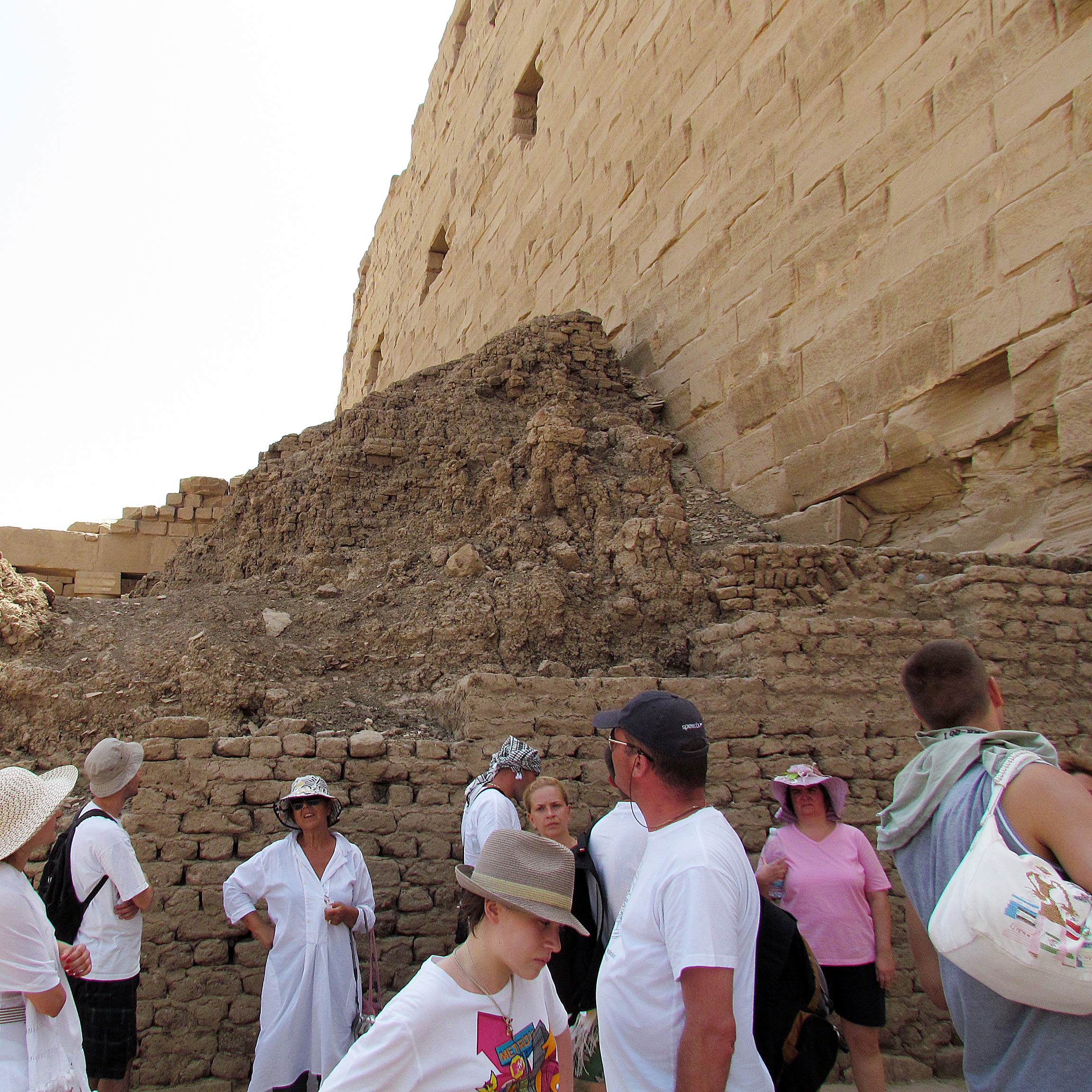 Ancient Egyptian's adobes as a pylon ramp in Temple of Karnak